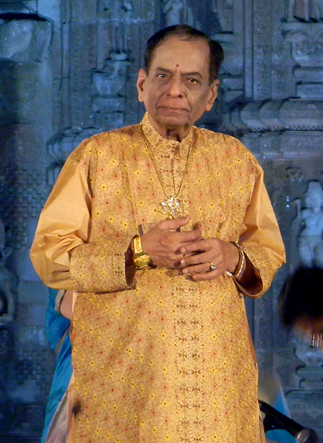 ଓଡ଼ିଆ: Dr. M. Balamuralikrishna at Rajarani Music Festival, Bhubaneswar This media file is uploaded with Odia loves Wikipedia